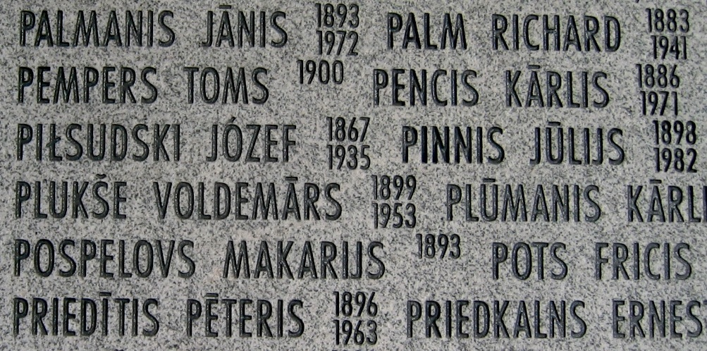 The name of Marshal Józef Piłsudski of Poland among the recipients of the Order of Lāčplēšis. Riga, the chapel at Brothers' cemetery.